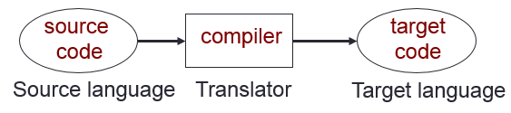 compie